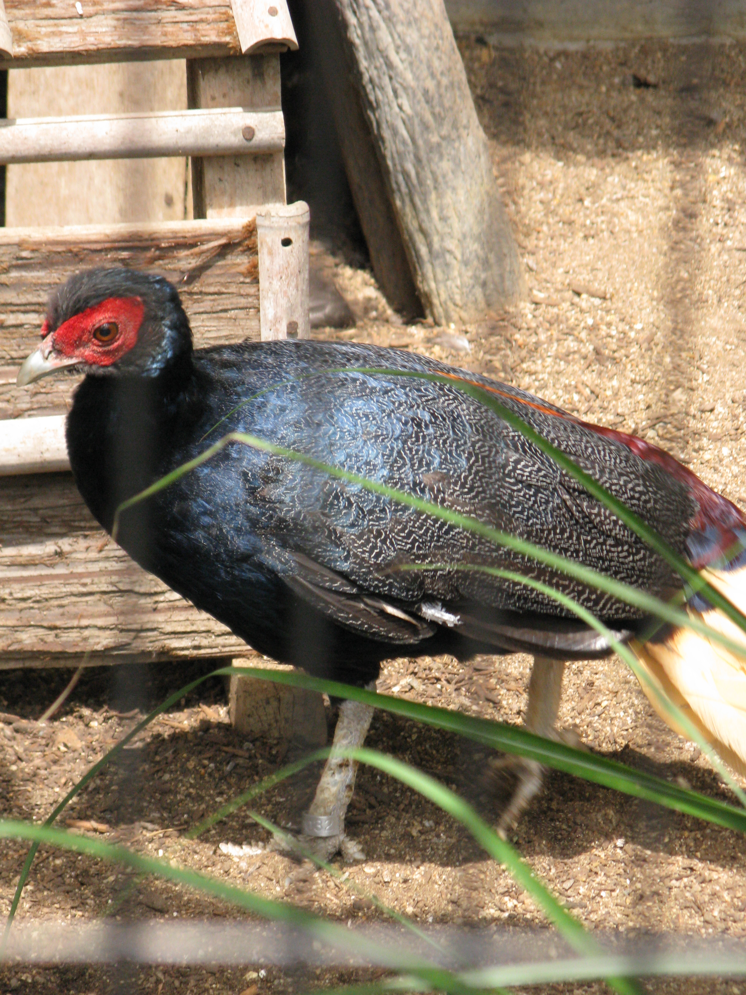 Scientific name Lophura erythrophthalma